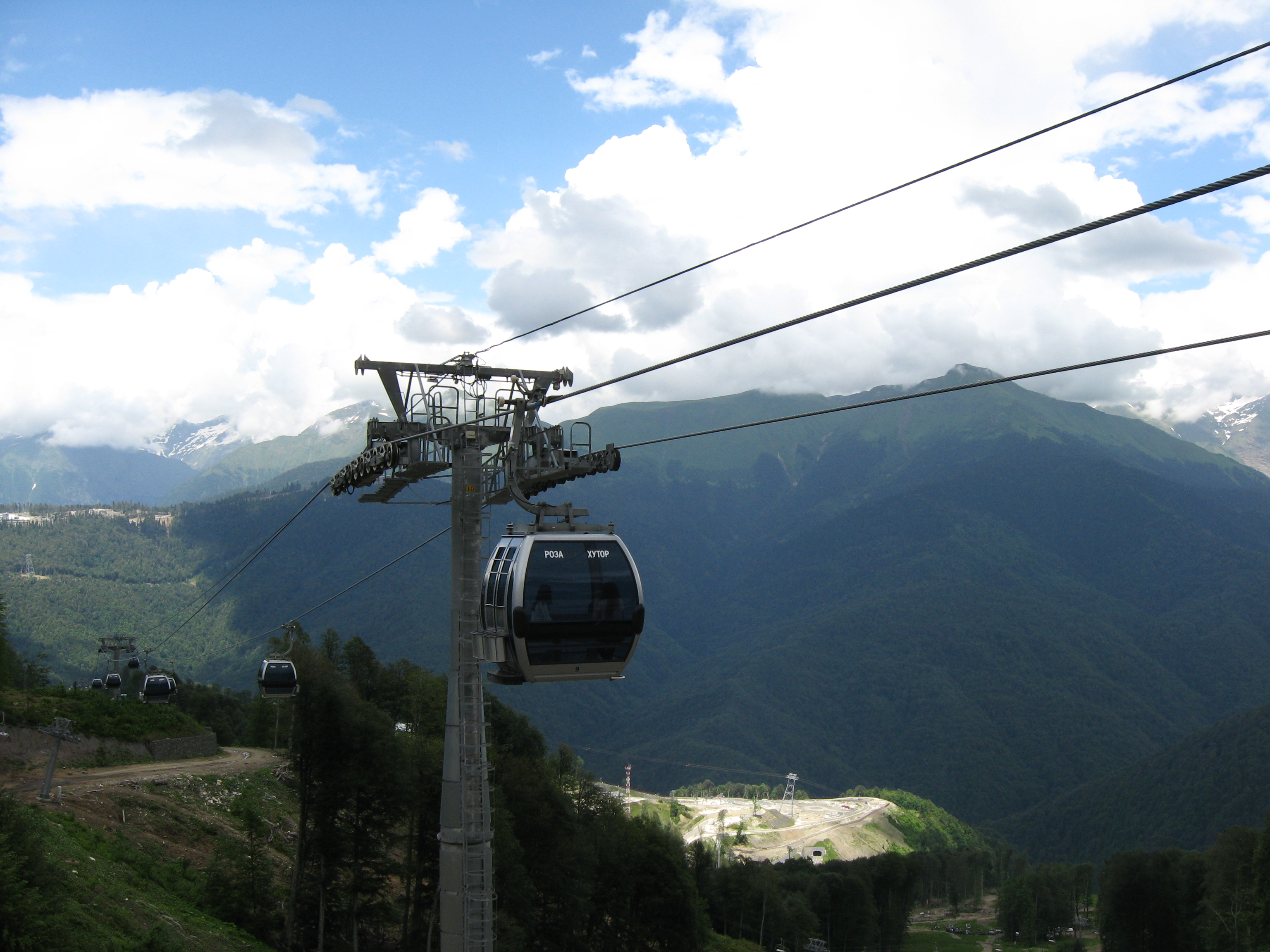 Aerial tramway at Krasnaya Polyana (Sochi, Russia)